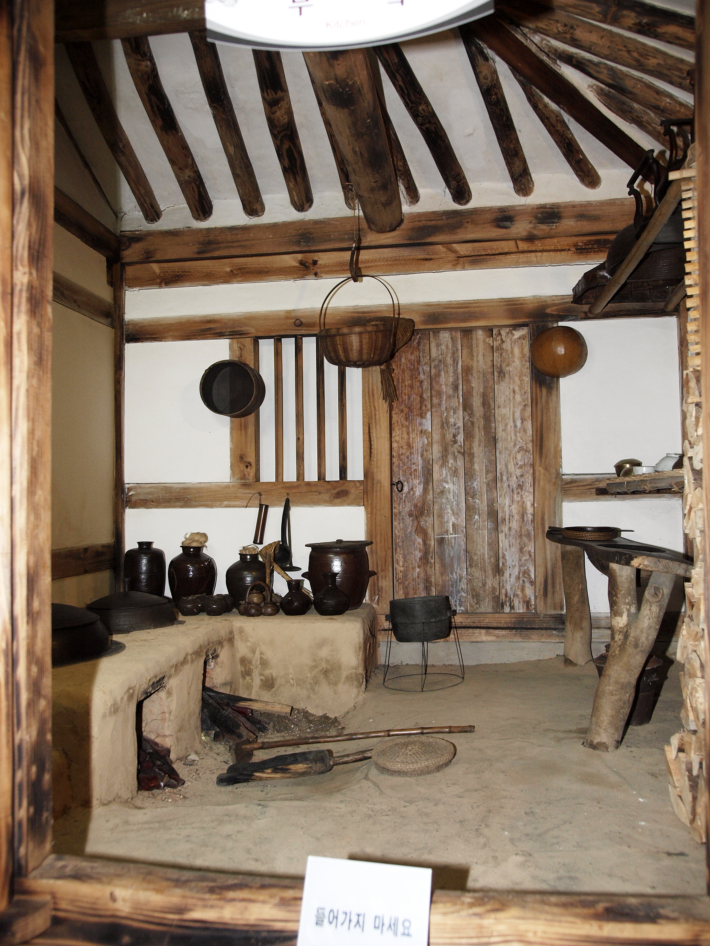 Korean Kitchen (Bueok, 부엌) in a traditional Korean Hanok, Gwangju Folk Museum, Gwangju, Jeollanam-do, South Korea